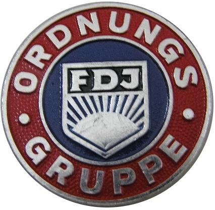 Symbol of the paramilitary FDJ Ordnungsgruppen. the photo of the emblem was taken by a Dutch collector. The photo as such has no artistic merit, as it is simply a flat reproduction of the collectible. The emblem itslef has no artistic merit ("Schöpfungshöhe" in German) either.